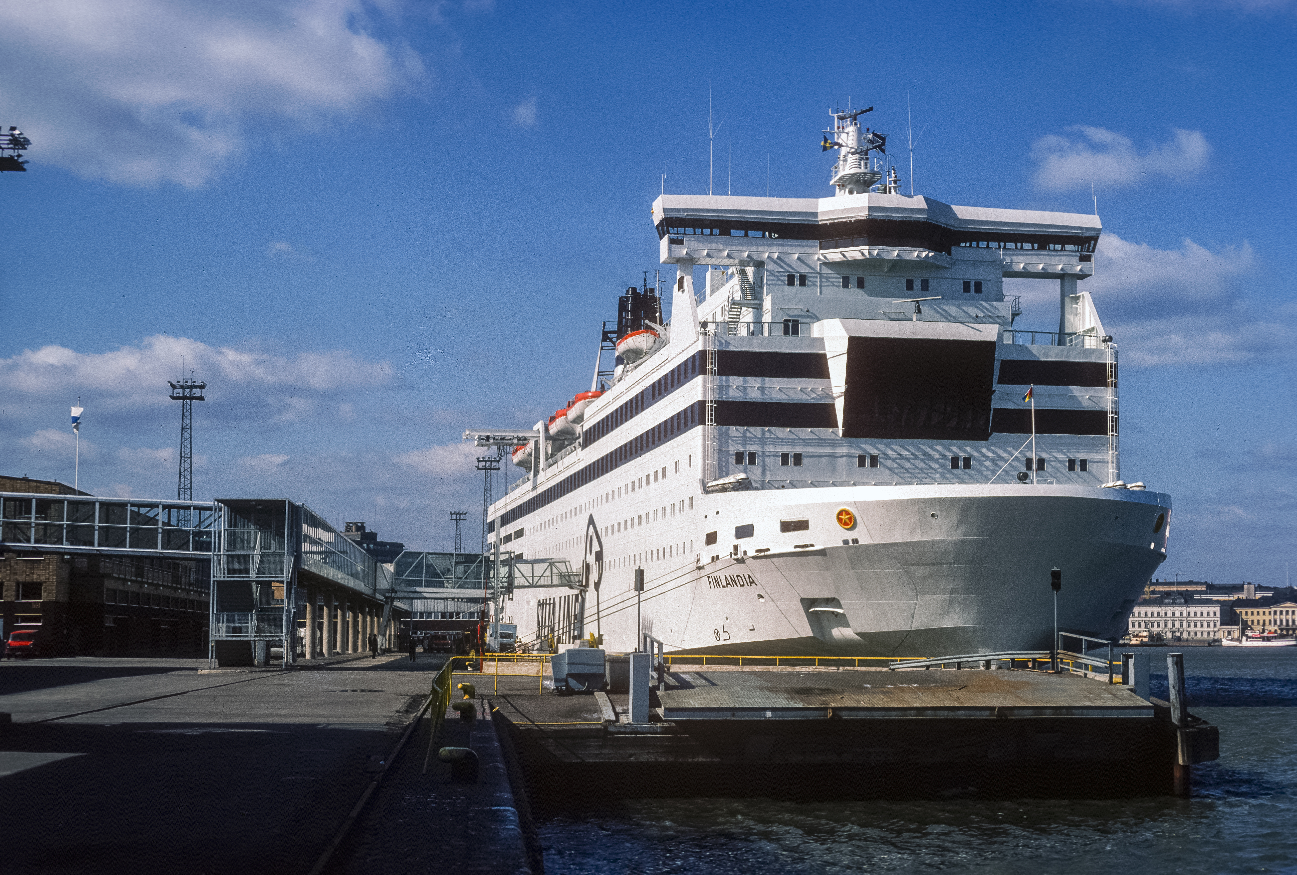 Cruise ferry Finlandia at Helsinki in 1981, two weeks after being placed in service. Original bow is shown. Scanned Kodachrome slide.